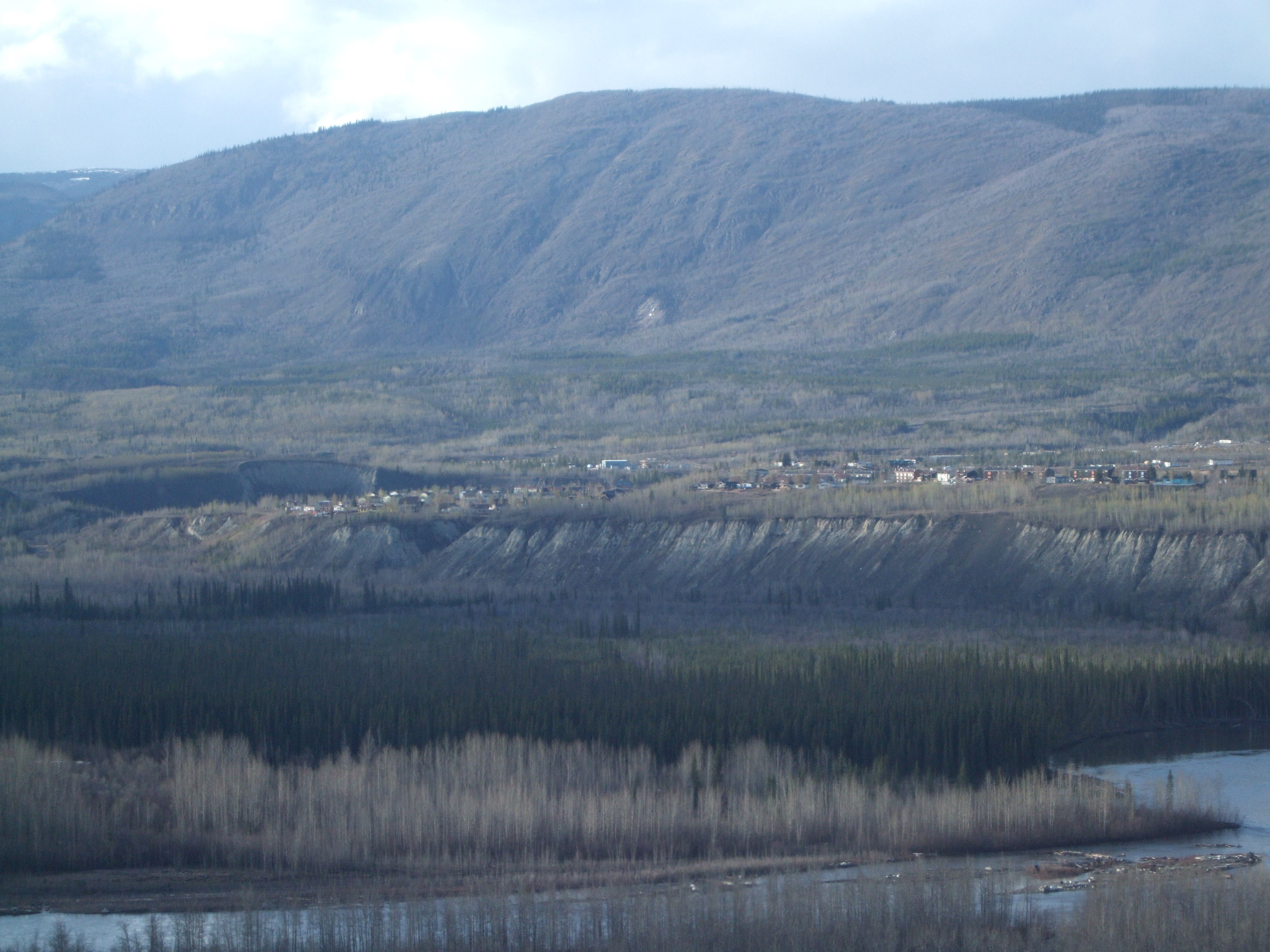 Town of Faro seen from helicopter.